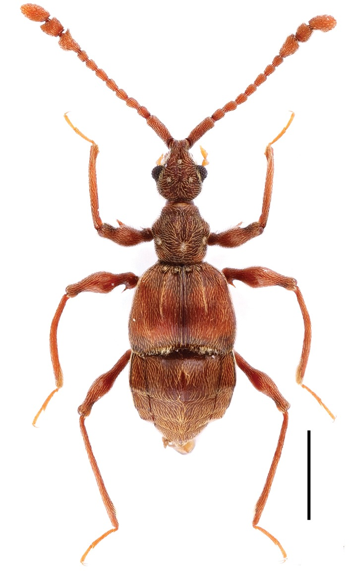 Male habitus of Pselaphodes jizushanus. Scale: 1.0 mm.